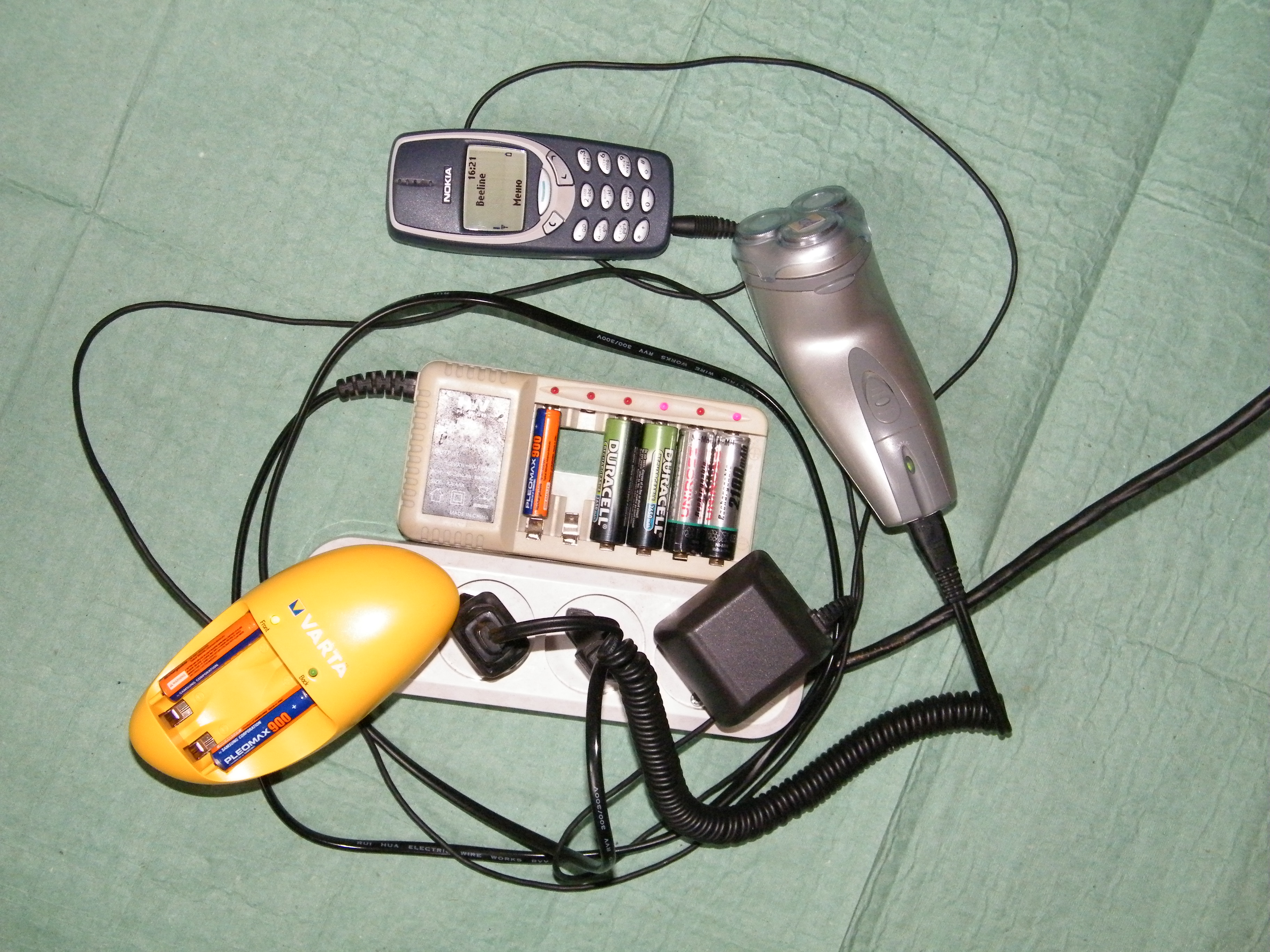 Domestic battery chargers